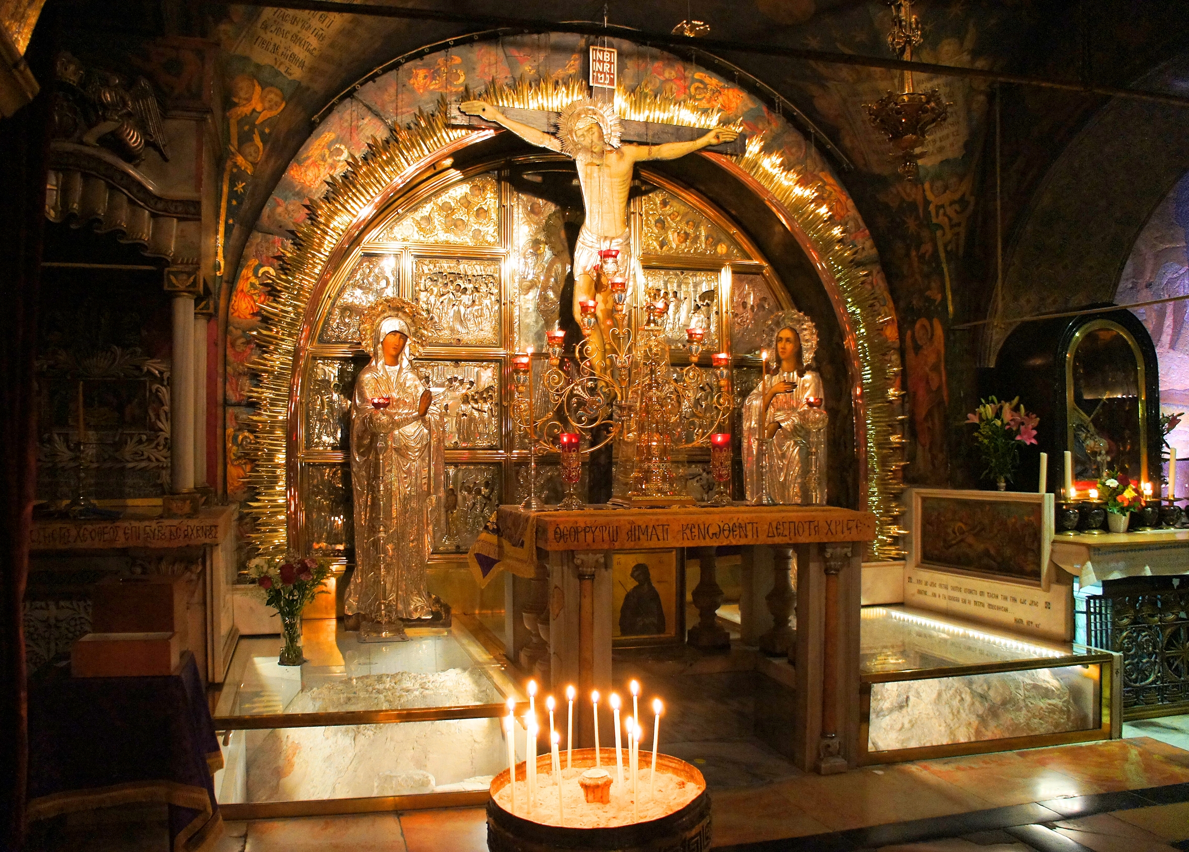 Golgotha, Church of the Holy Sepulchre, Jerusalem.